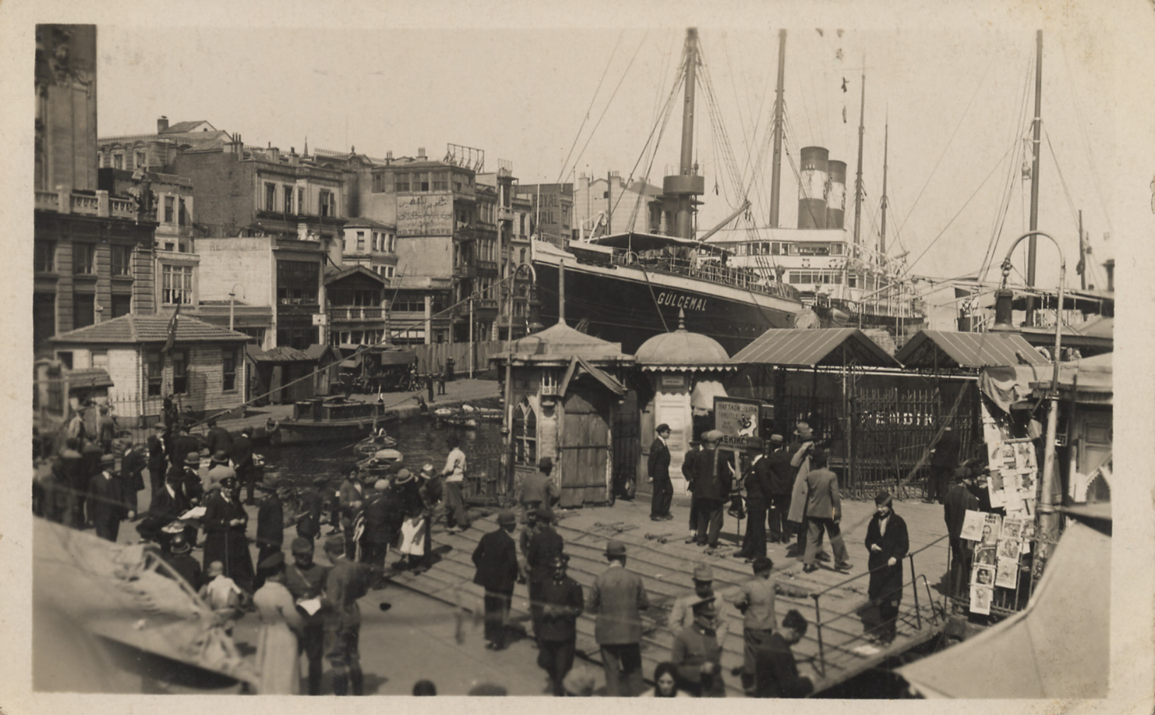 Gülcemal, a passenger steam ship, was constructed in 1874 in Belfast and initially provided service on the Atlantic Ocean under the names Germanic and Ottawa. It was sold to the Ottoman Seyr-i Sefain Management in 1911. During the Balcan War, First World War and the Turkish War of Independence it was used to provide military transportation. After four civil voyages in the early 1920s, Gülcemal became the preferred ship of Atatürk and the first ship to officially travel to America under the Turkish flag. Decommissioned in 1950, after 75 years in service, Gülcemal at that time was known as the second longest serving ship in the world. SALT Research, Photography Archive 1874’te Belfast’ta inşa edilen Gülcemal adlı uzun yol buharlı yolcu gemisi, ilk yıllarında Germanic ve Ottawa adlarıyla Atlantik Okyanusu’nda hizmet verdi. 1911’de Osmanlı Seyr-i Sefain İdaresi tarafından satın alındı. Gülcemal, Balkan Savaşı, I. Dünya Savaşı ve Kurtuluş Savaşı’nda asker taşımada kullanıldı. 1920’lerin başında yaptığı dört seferle Amerika’ya giden Türk bayraklı ilk gemi olarak Türk sivil denizcilik tarihine geçti. Atatürk’ün deniz yolculuklarının çoğuna da ev sahipliği yapan Gülcemal, 1950’de söküldüğünde 75 yıllık hizmet ömrüyle o tarihte dünyanın en uzun süre çalışmış olan ikinci gemisiydi. SALT Araştırma, Fotoğraf Arşivi